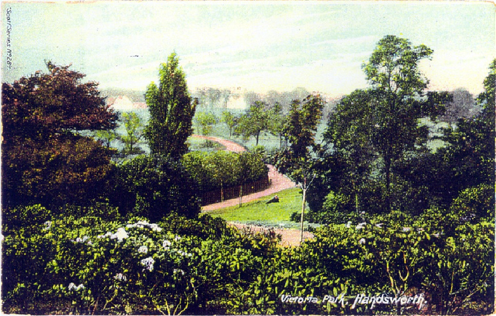 Victorian postcard of the first part of Handsworth Victoria Park to the west of the railway. Image copied in 1995 from a collection of postcards held by Dorothy Lopashka.